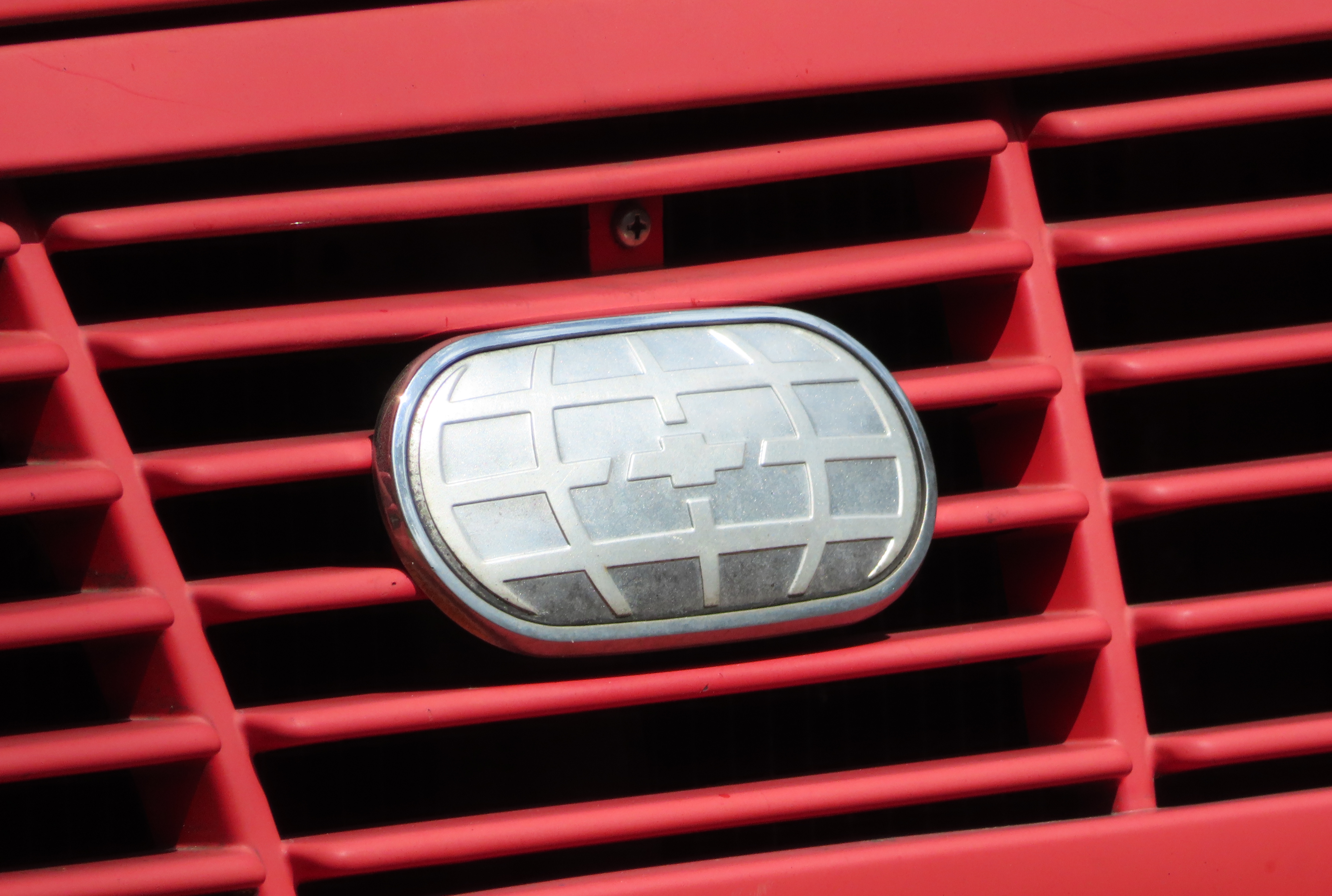 Geo logo on a 1994 Geo Tracker